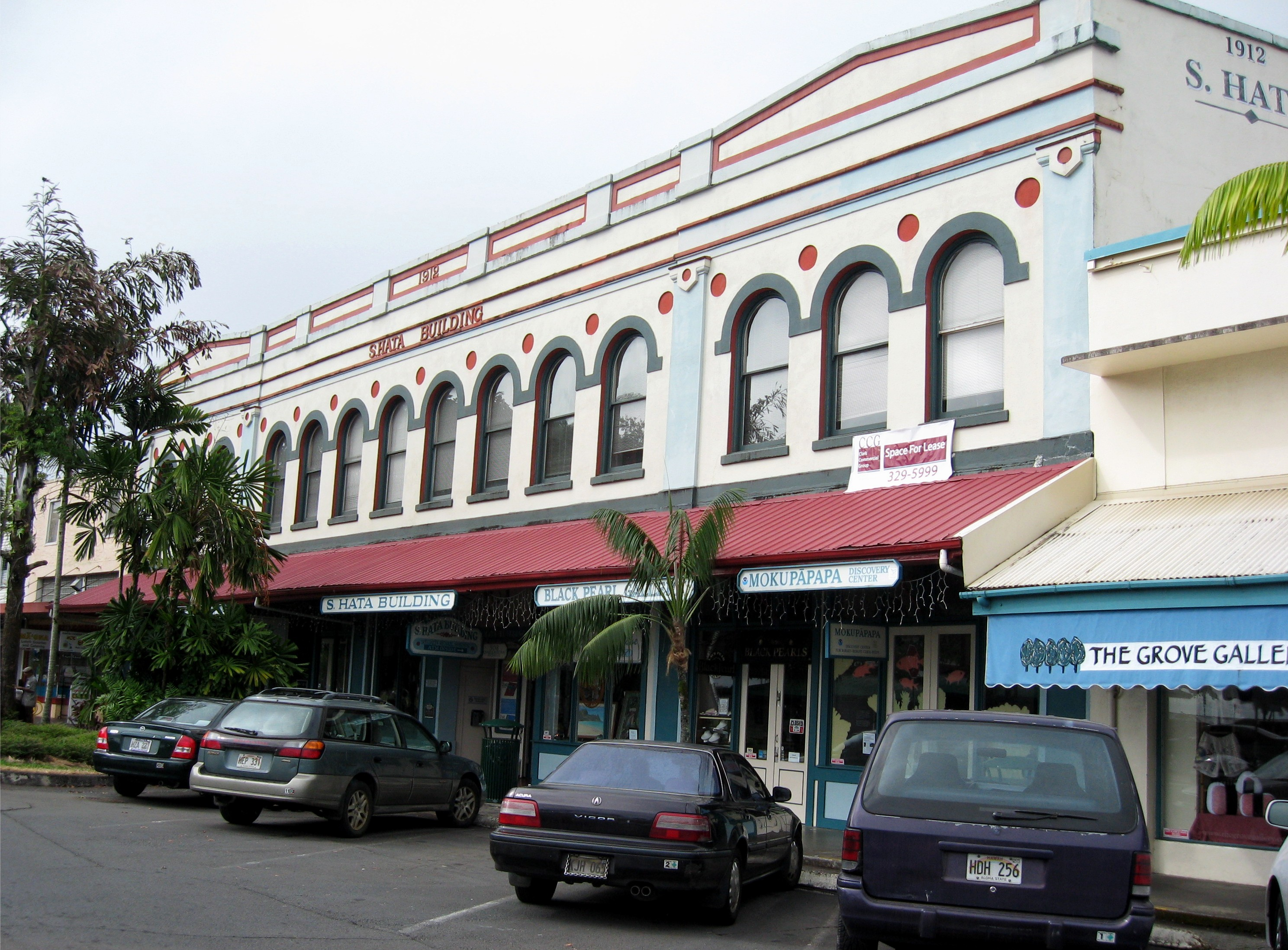 A historic building built by Japanese businessman S. Hata in 1912 in Hilo, Hawaii. In addition to commercial tenants, it holds the Mokupapapa Discovery Center, a museum on the Northwestern Hawaii Islands and its National Monument.